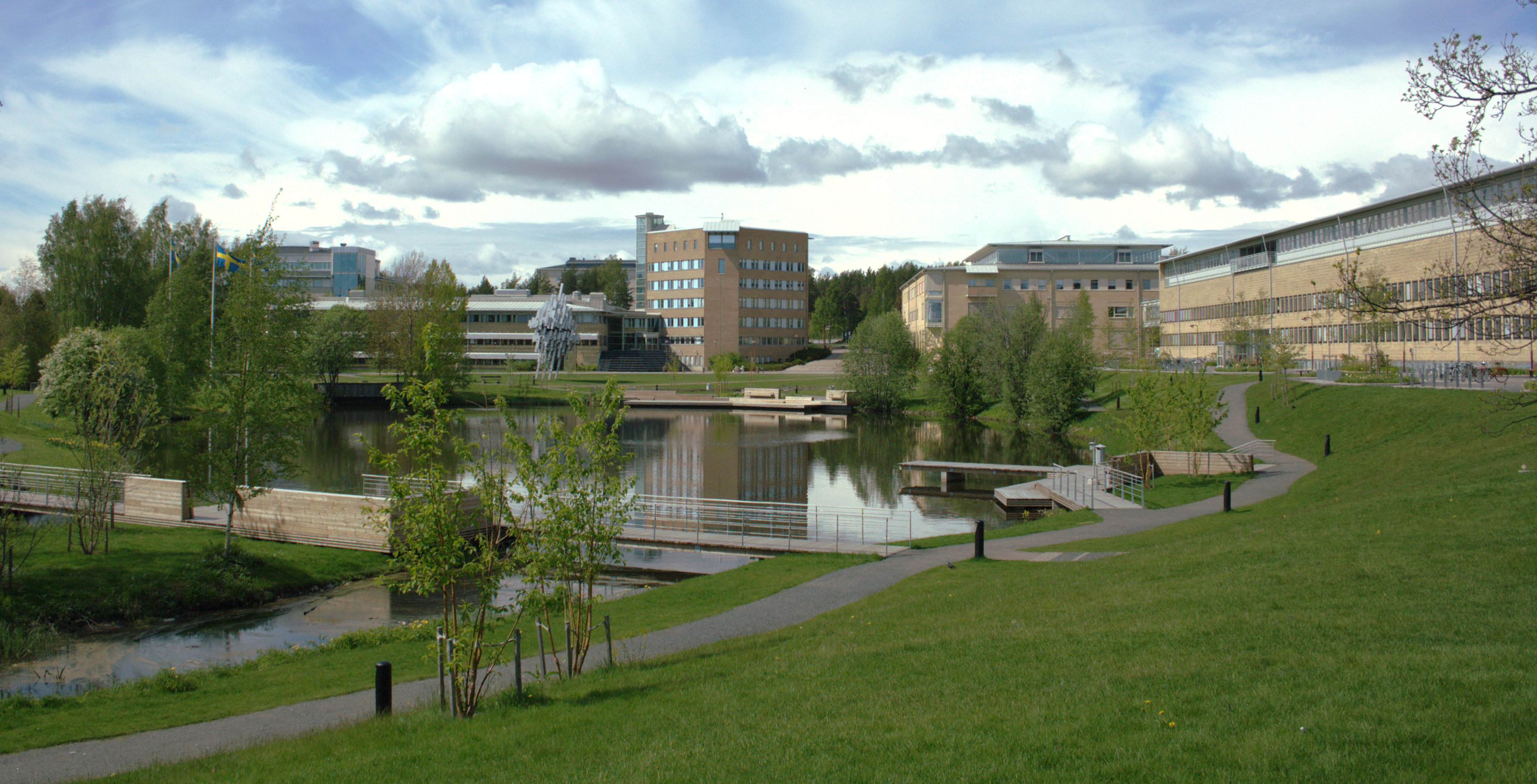 Umeå University Campus pond, Sweden